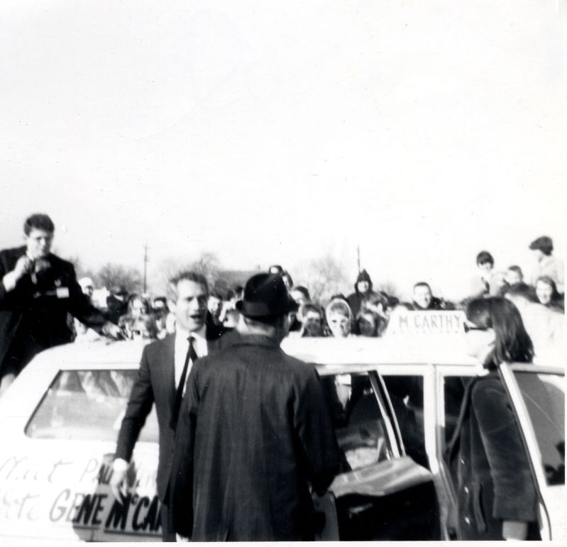 Paul Newman showed up at a political rally held in Menomonee Falls, Wisonsin in 1968 for Eugene McCarthy.